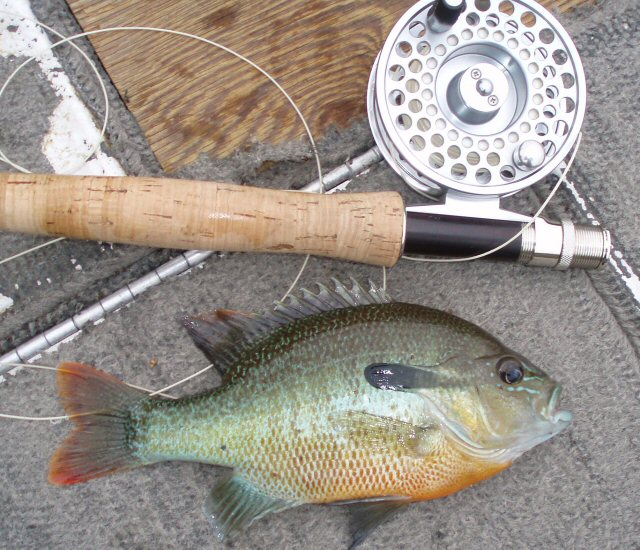 A redbreast sunfish (Lepomis auritus) from the Tallapoosa River, Alabama